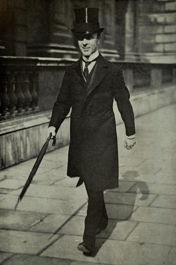 "Mr. Reginald M'Kenna."